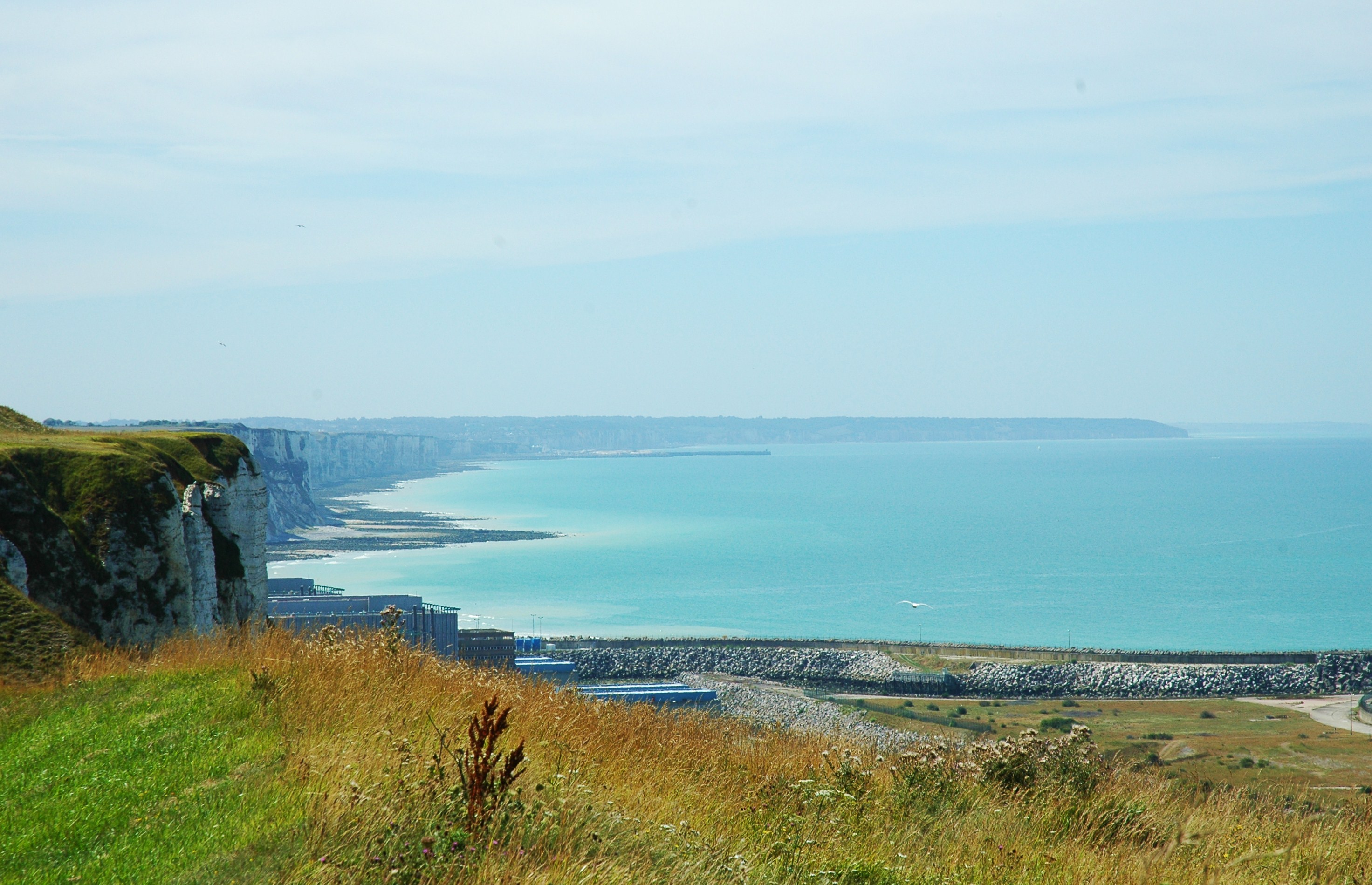 Penly, Seine Maritime-France